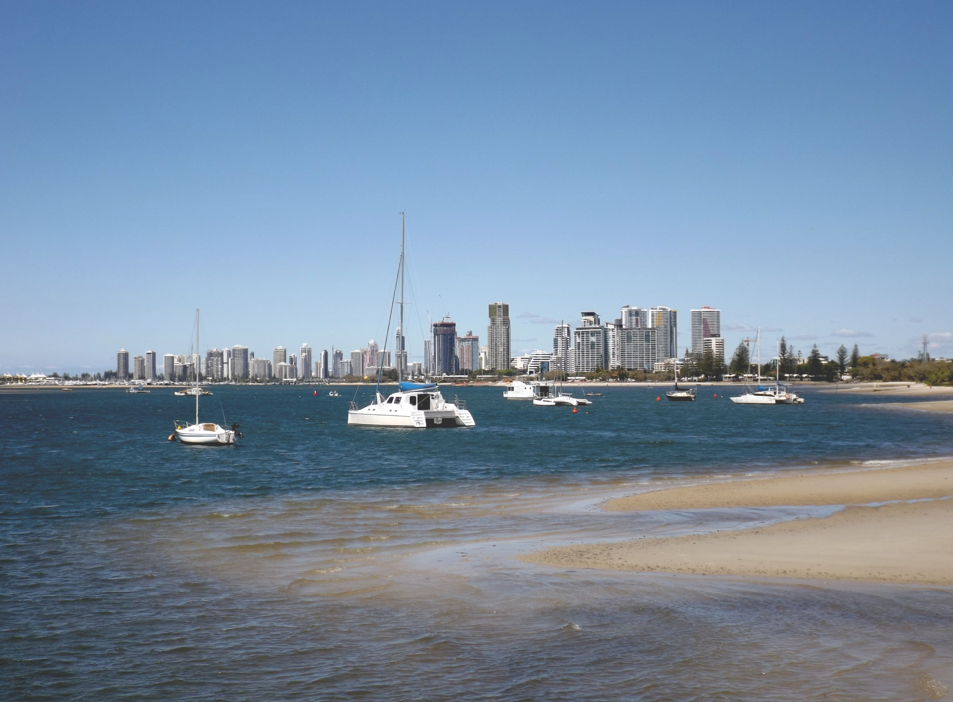 View towards Southport across the Broadwater from Labrador, Gold Coast City, Queensland, Australia.